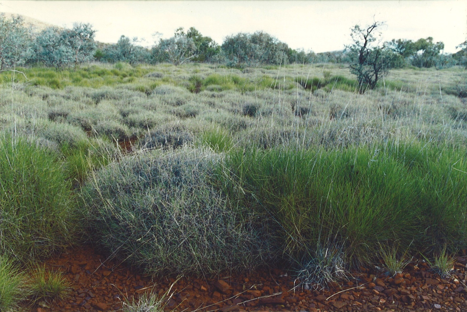 This is a photograph of Triodia hummock grasslands at Karijini National Park, Western Australia. The green hummocks are Triodia pungens R.Br. (Soft Spinifex); the blue-grey hummocks are Triodia basedowii E.Pritz. (Hard Spinifex or Lobed Spinifex). The trees in the background are Eucalyptus and Acacia species.